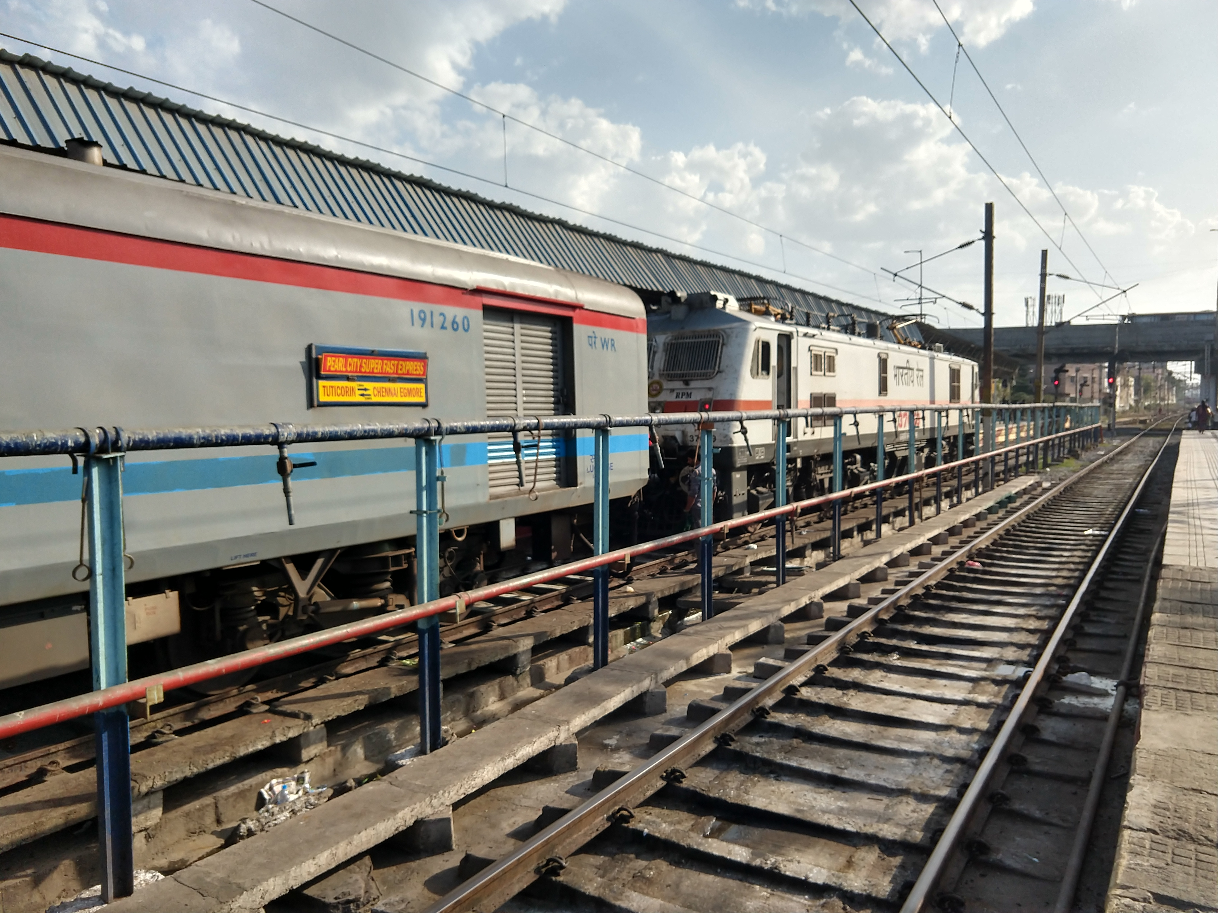 Pearl city Exp at Platform no : 4, Chennai Egmore.